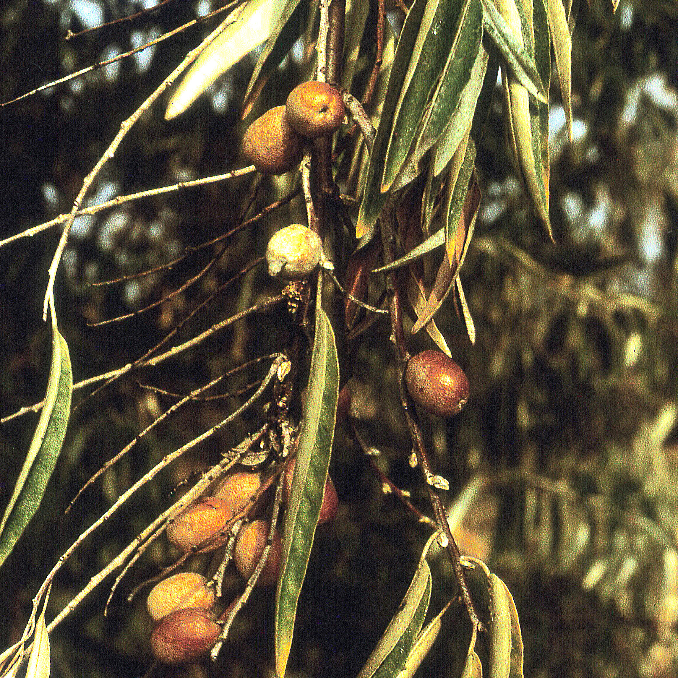 Elaeagnus angustifolia achenes.